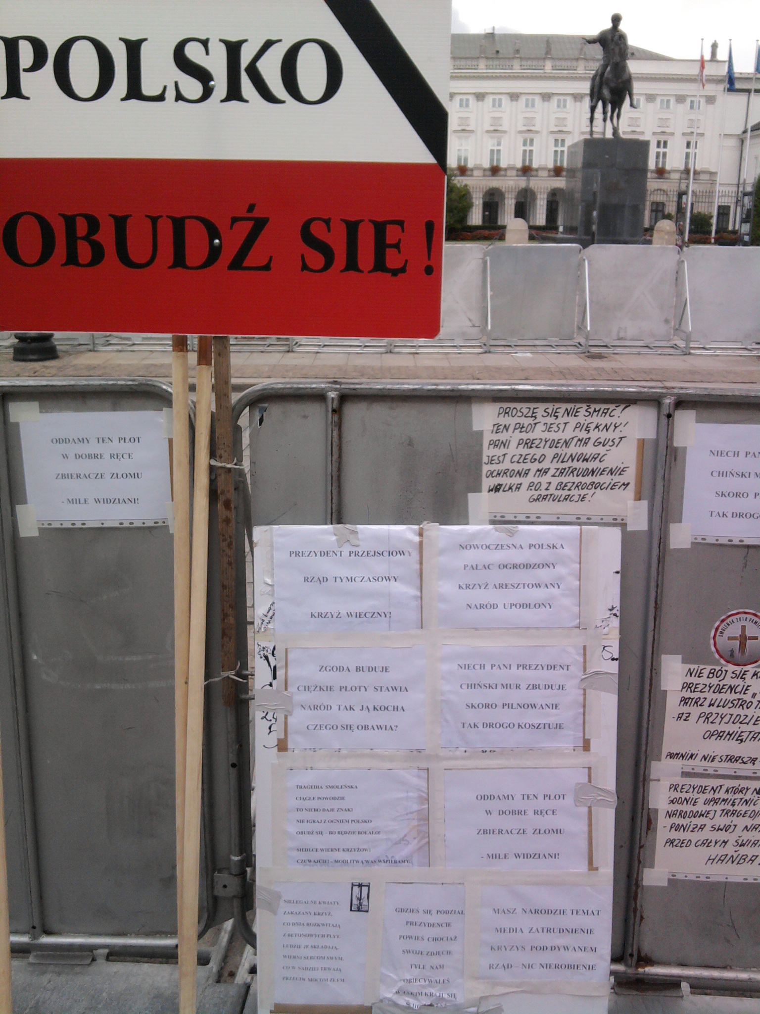 Cross in front of the Presidential Palace in Warsaw after Smolensk plane crash.